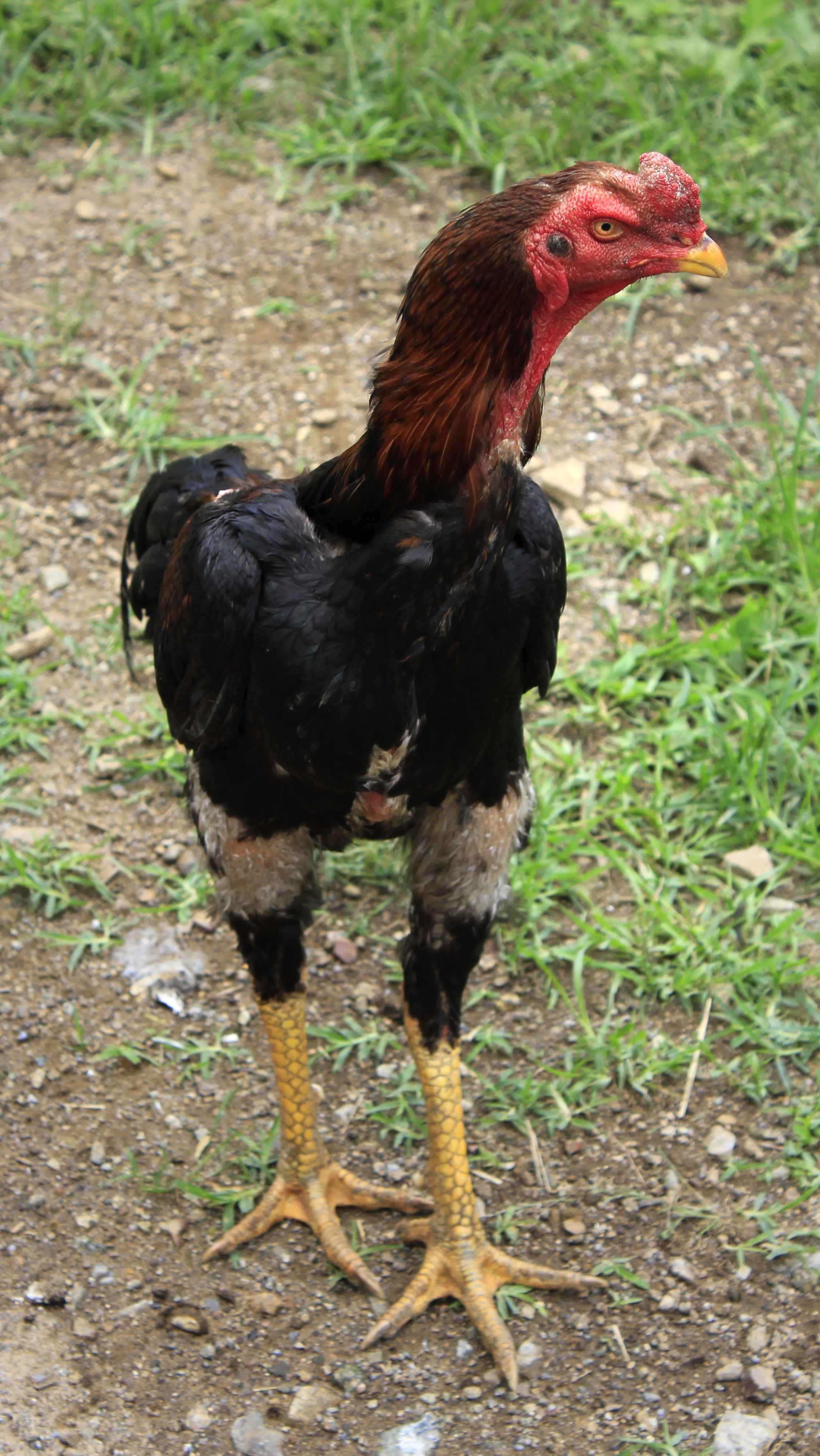 Shamo (軍鶏) Chicken